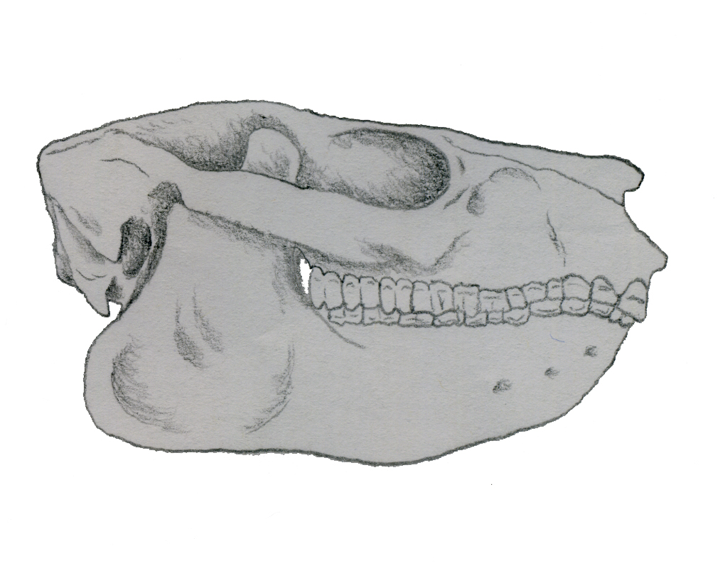 Skull of Notopithecus adapinus, an extinct notoungulate